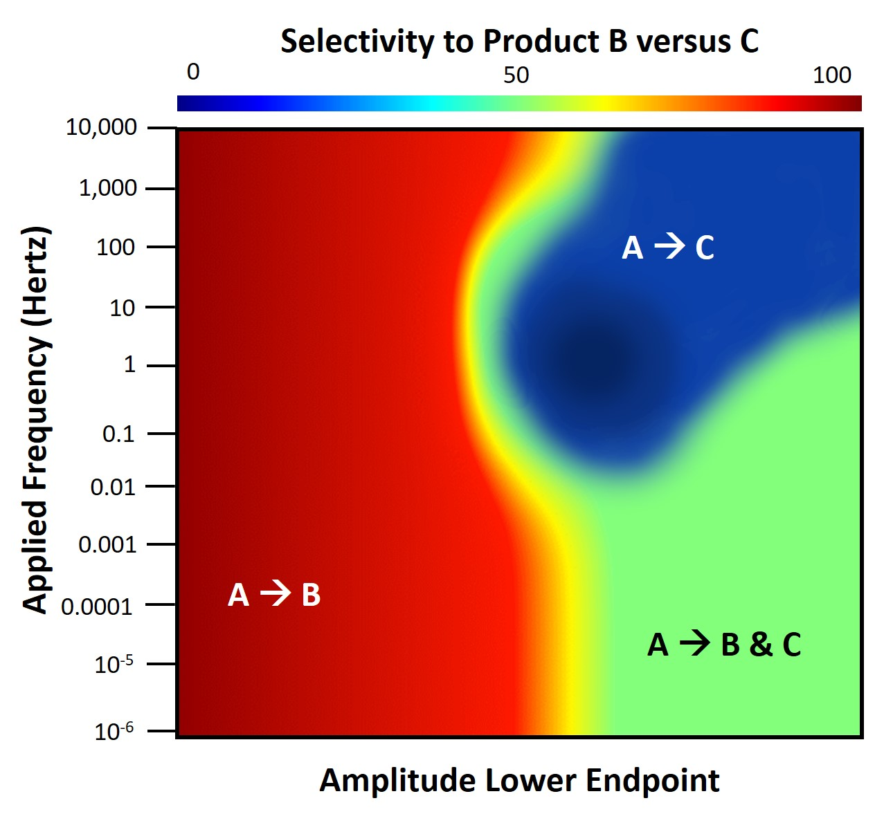 The dynamic reaction of parallel chemistries occurs with varying applied frequency and amplitude such that it becomes possible to control which product is made (general chemicals B or C) from a single reactant, A.